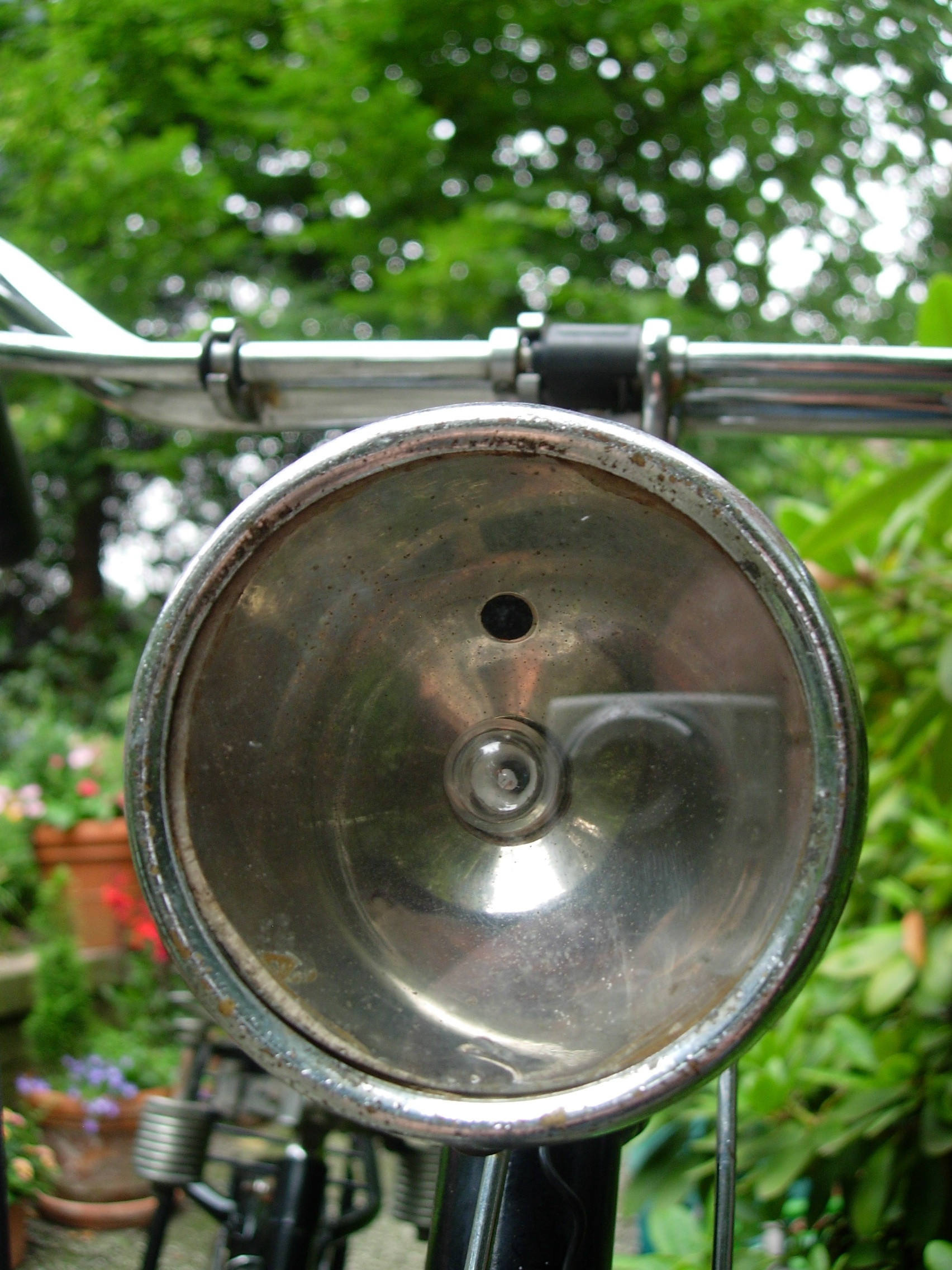 Gazelle vintage bicycle